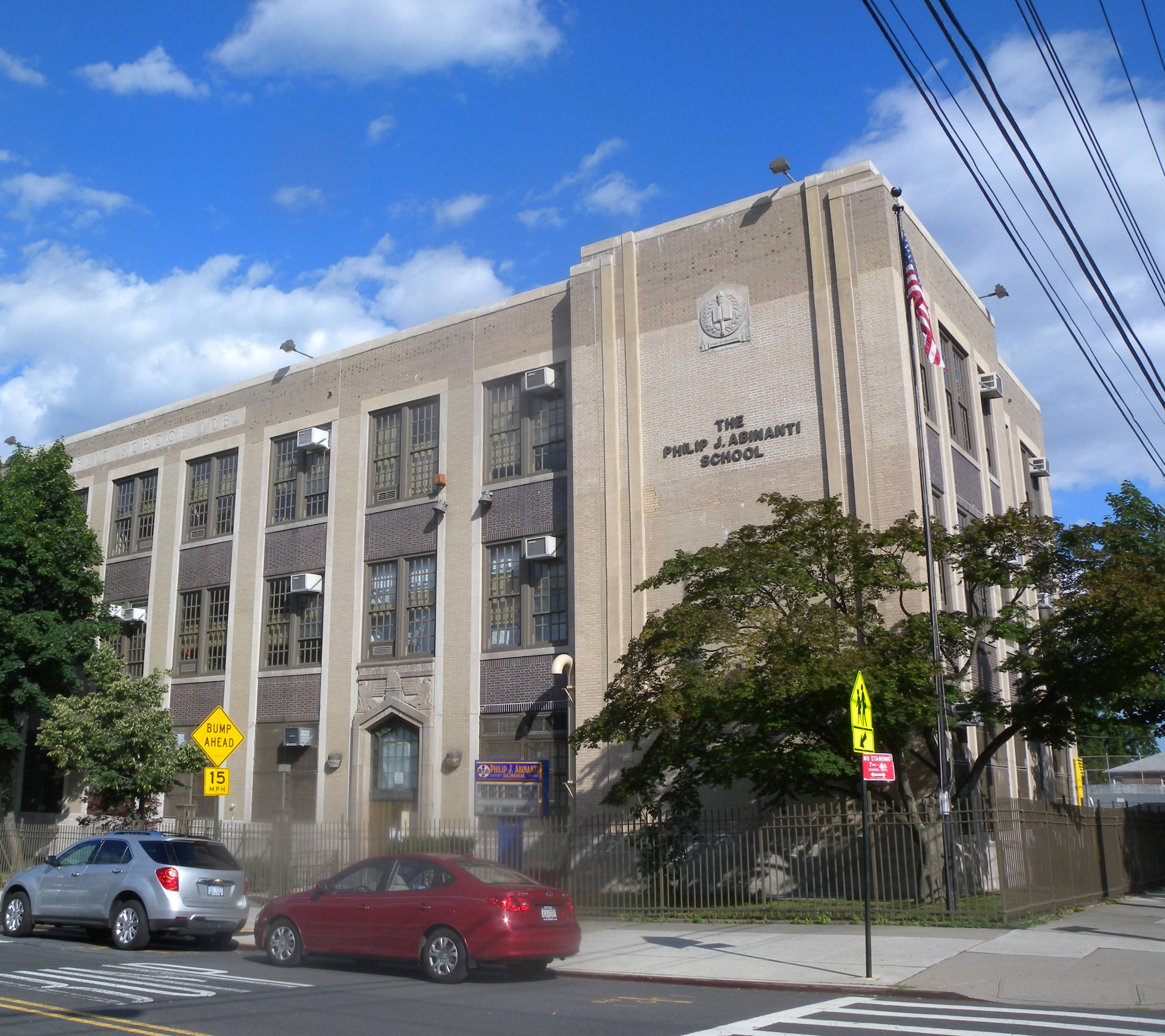 Looking east across Niell Avenue from Yates Avenue in Morris Park, at PS 108 on a mostly sunny afternoon.